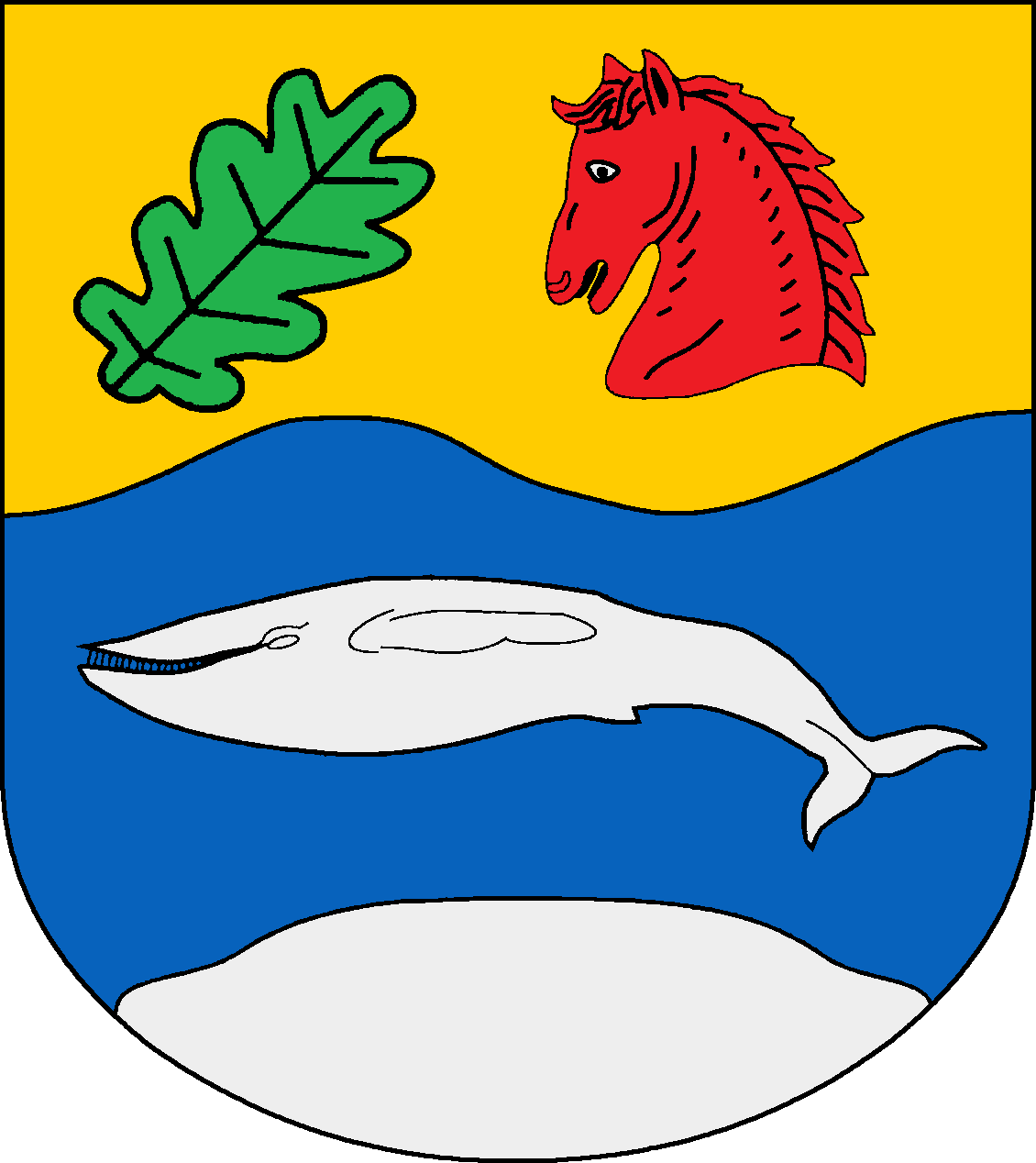 Coat of arms of the municipality Groß Pampau in Schleswig-Holstein, Germany.